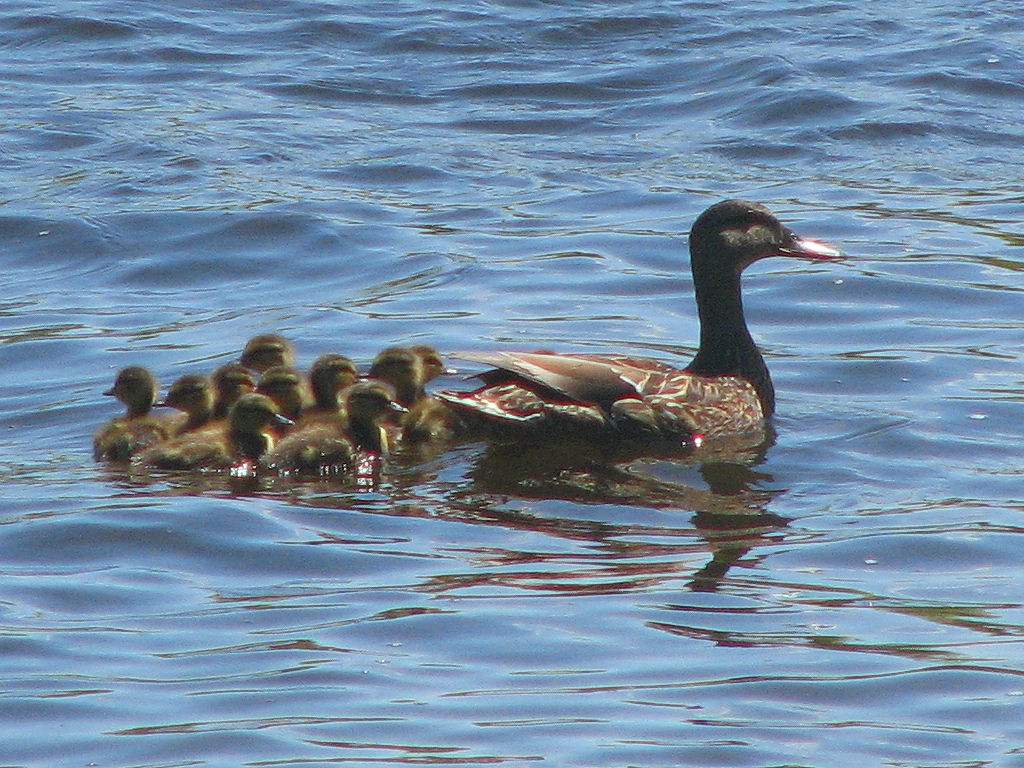 Black Duck (Anas rubripes), female and ducklings, Rideau River, Ottawa, Ontario